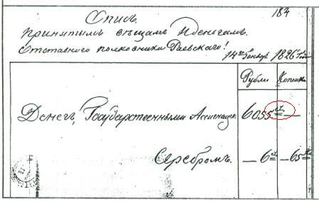 The list of resigned colonel Raevsky's personal belongings